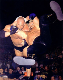 Owner of photo: Diamond Dallas Page Source: Received directly from owner Permissions to use this, and other, photos is on file with creative commons Attribute + Share-alike. Some rights reserved code